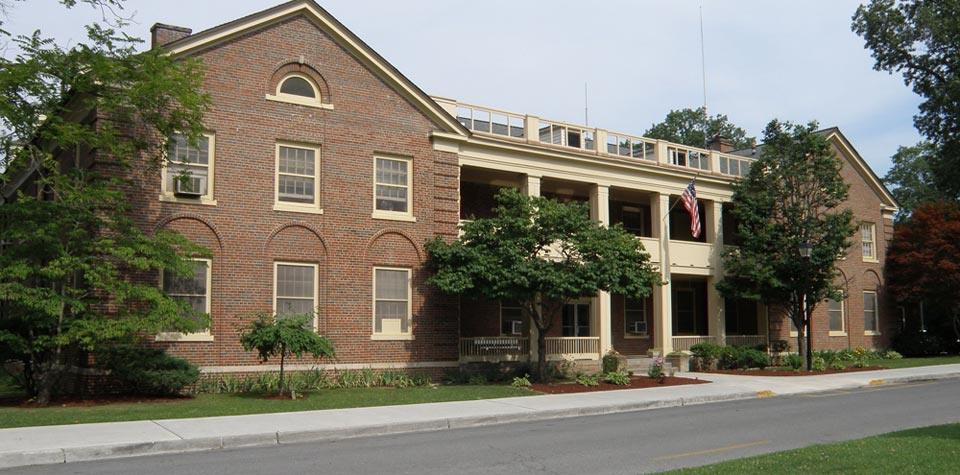 Administrative Building of the Federal Prison Camp, Alderson